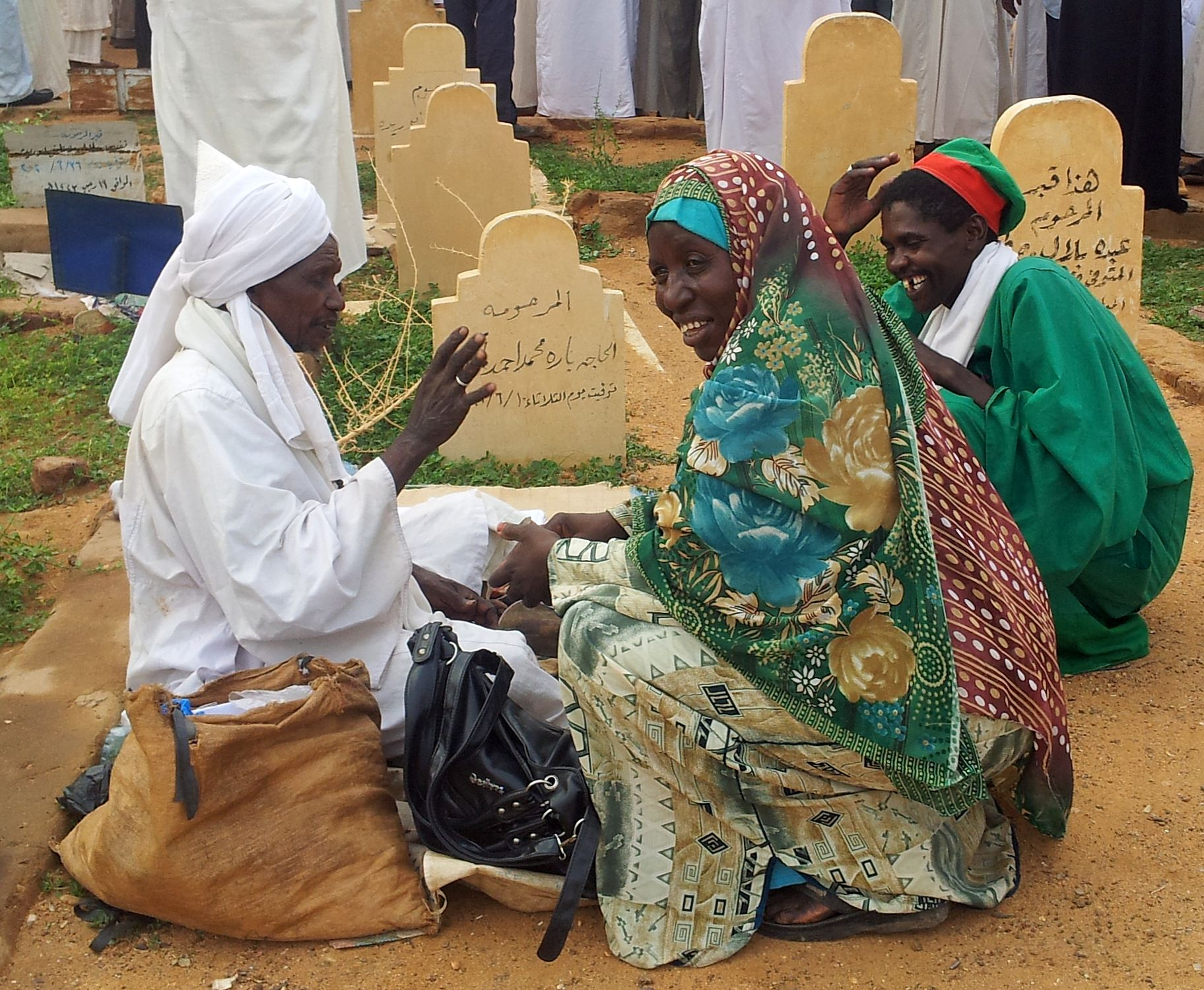 Sufi spiritual guide Omdurman with two women seeking help